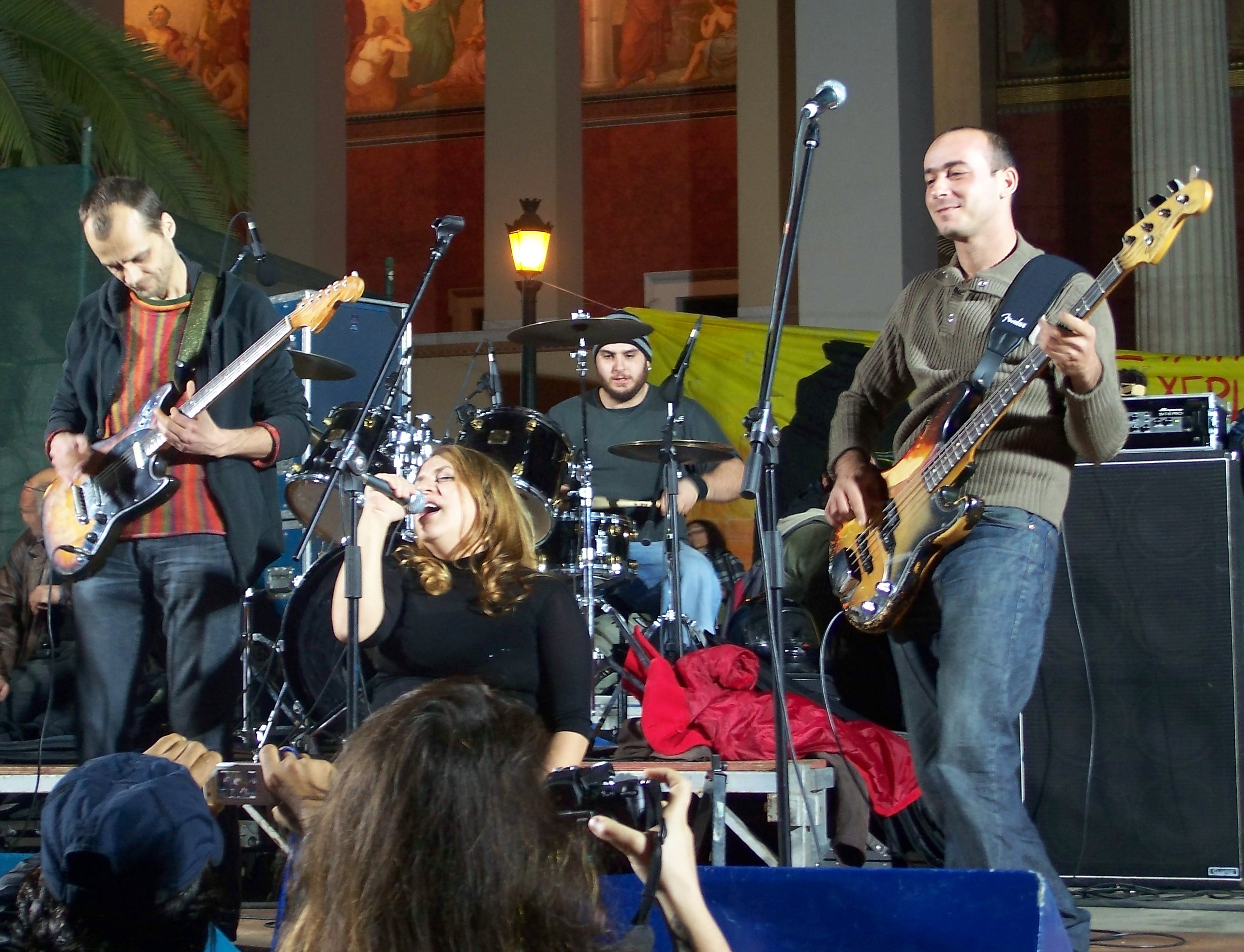 Greek indy band Echo Tattoo.